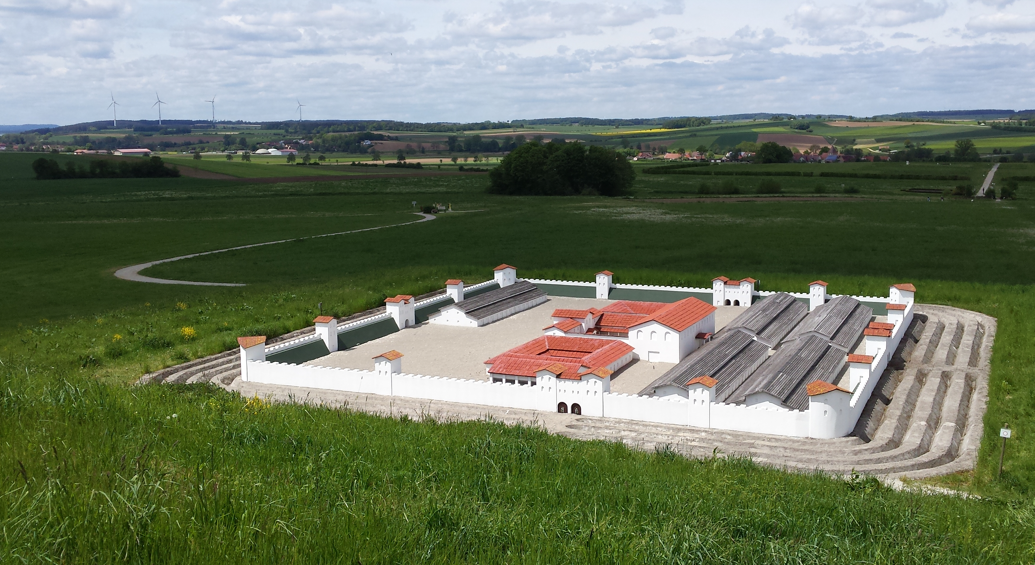 Mini-Kastell